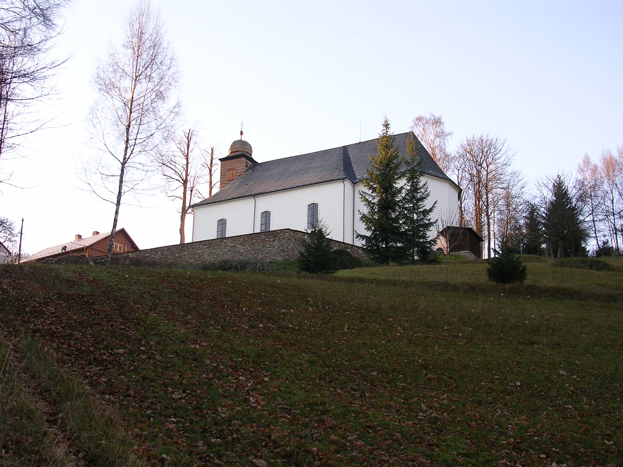 Paseky nad Jizerou, the Czech Republic. Saint Wenceslas Church.